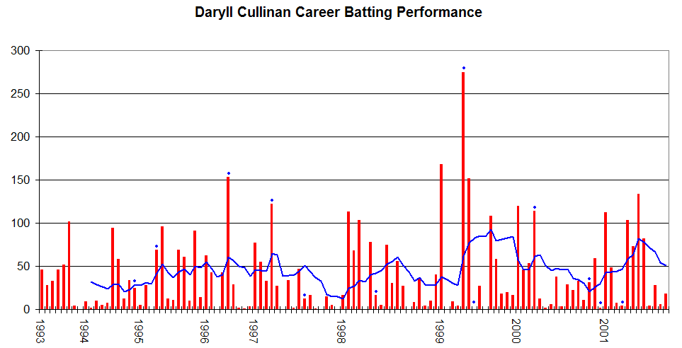 This graph details the Test Match performance of Daryll Cullinan. It was created by Raven4x4x. The red bars indicate the player's test match innings, while the blue line shows the average of the ten most recent innings at that point. Note that this average cannot be calculated for the first nine innings. The blue dots indicate innings in which Cullinan finished not-out. This graph was generated with Microsoft Excel 2002, using data from Cricinfo and .au.